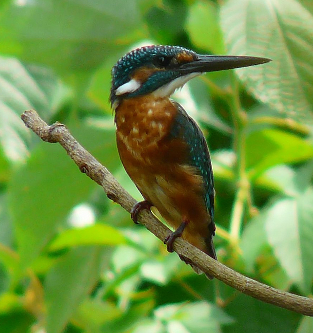 A male kingfisher (Alcedo atthis) in Japan. Cropped to emphasise the bird's summer plumage.